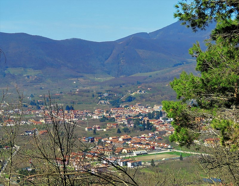 Forino